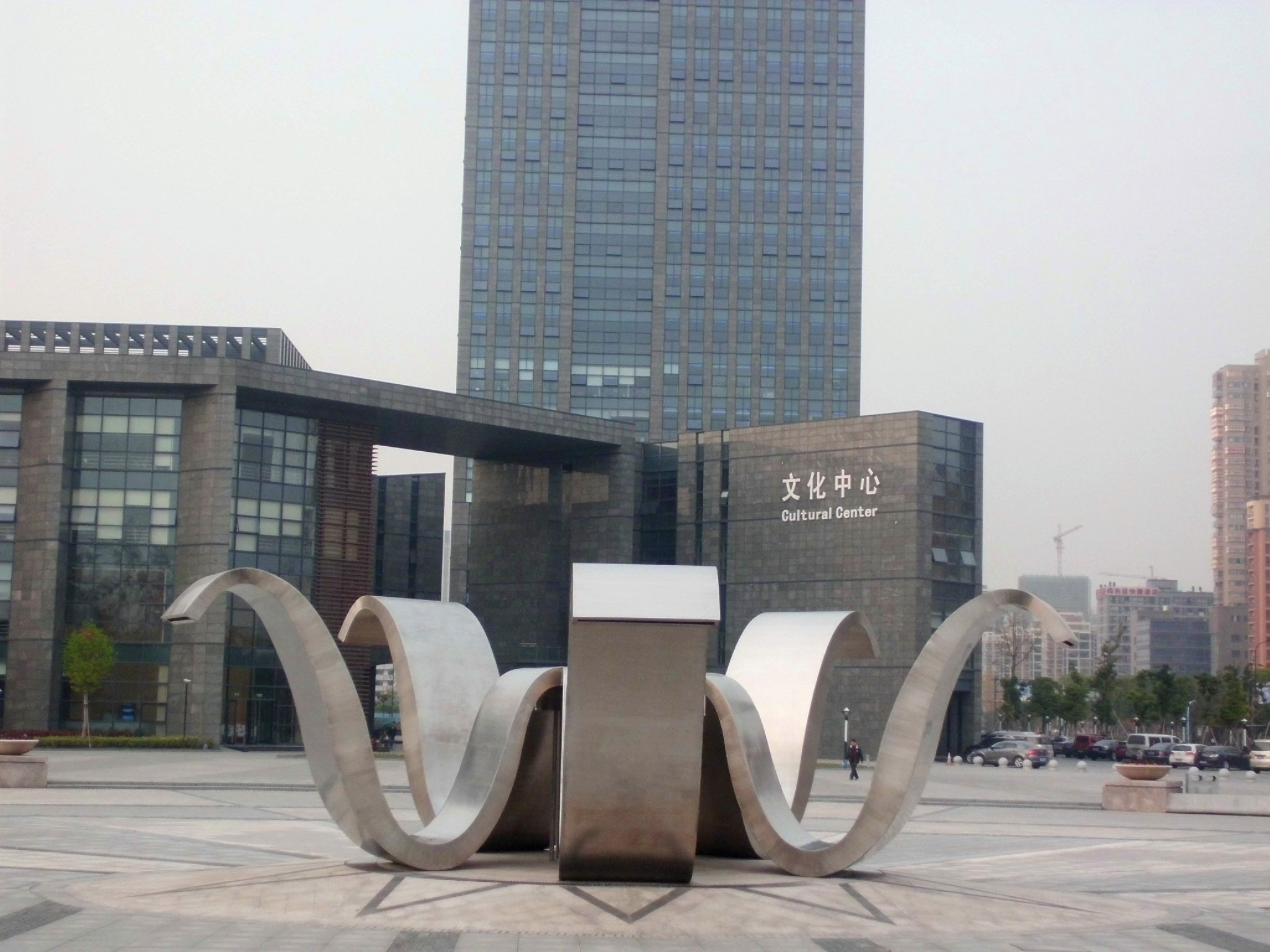 Xiasha Cultural Center